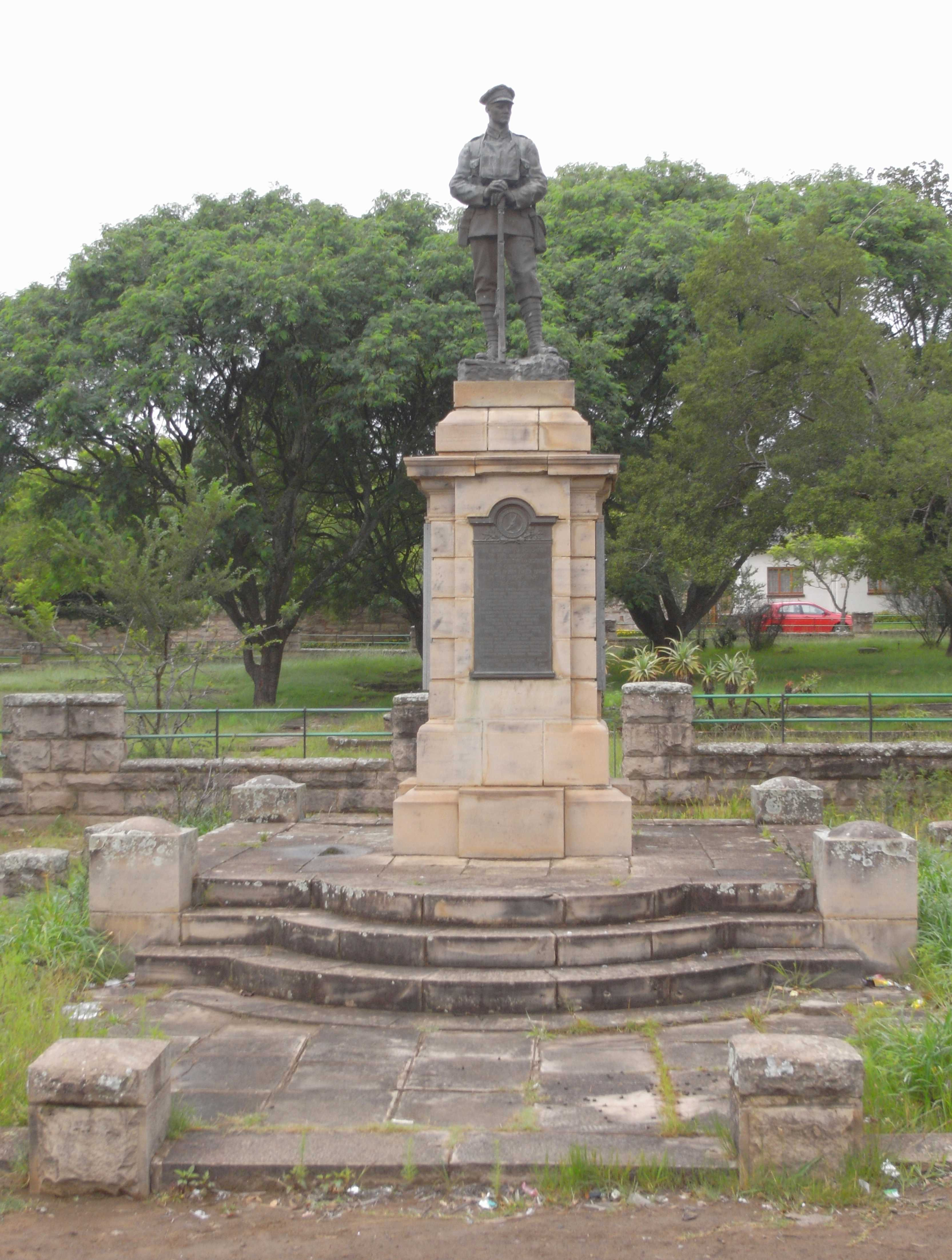 Cathcart, First World War memorial (Eastern Cape, South Africa)